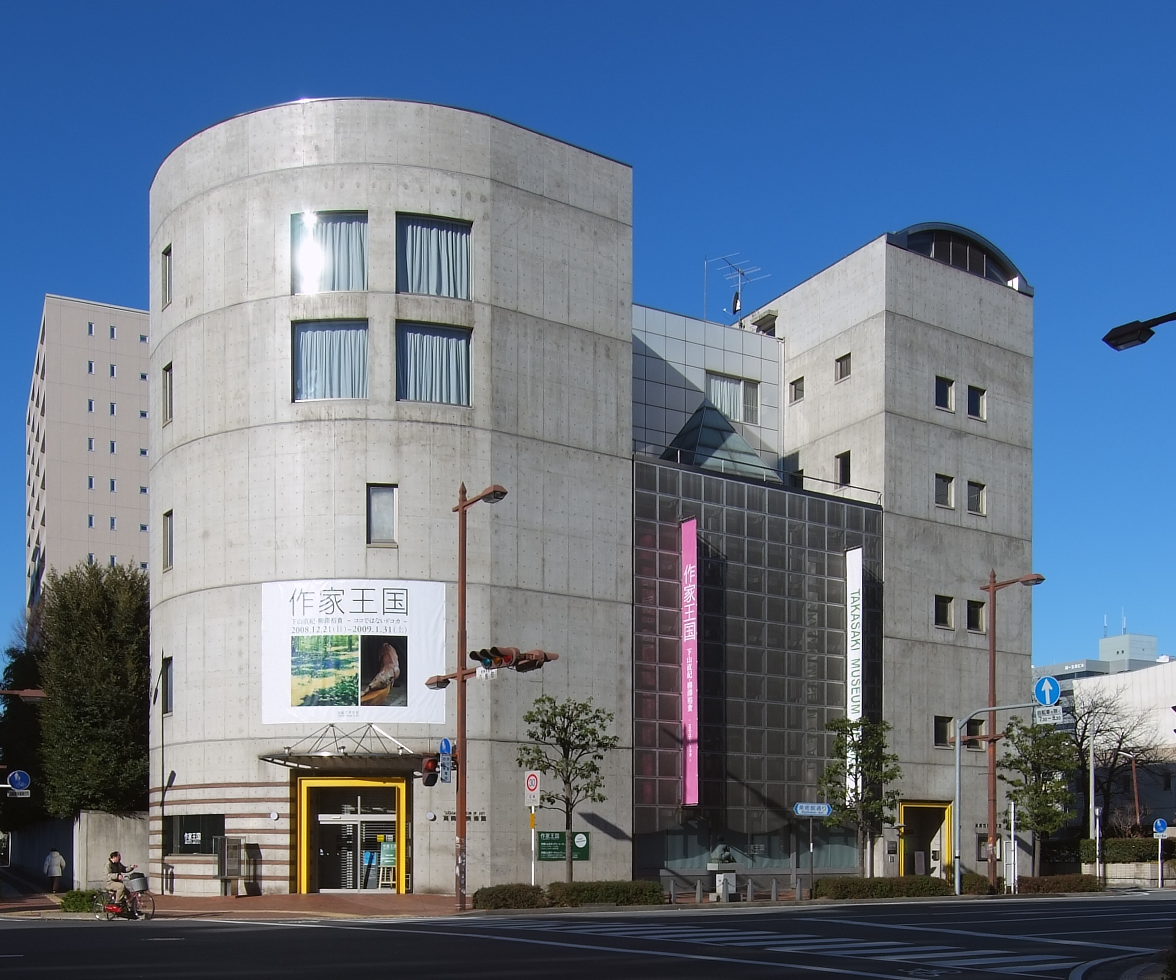 Takasaki Museum of Art, at Takasaki Gunma Japan.